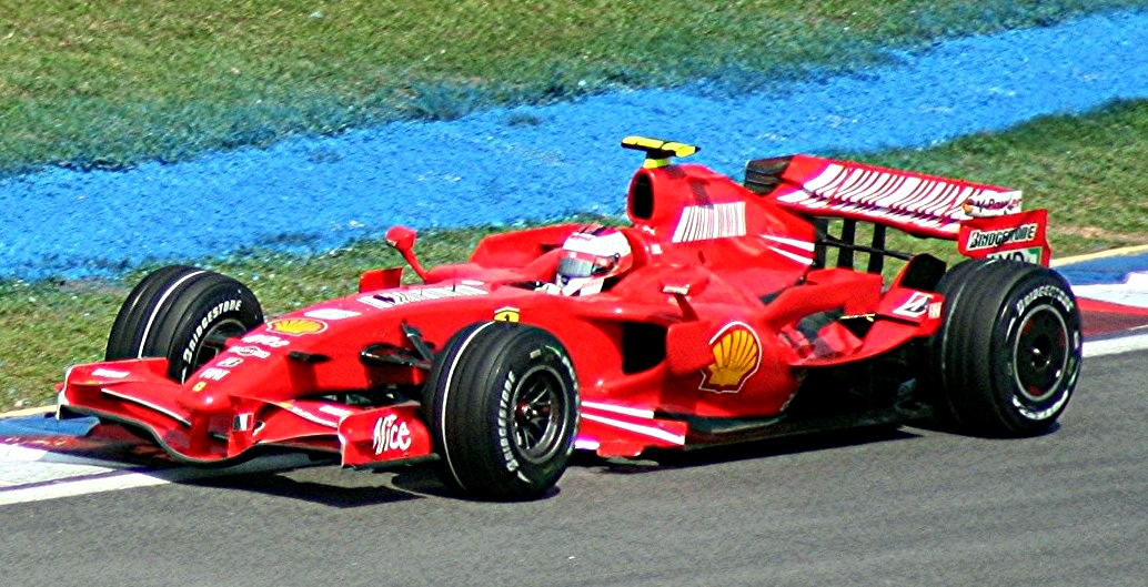 Kimi Raikkonen driving for Scuderia Ferrari at the 2007 Malaysian Grand Prix.